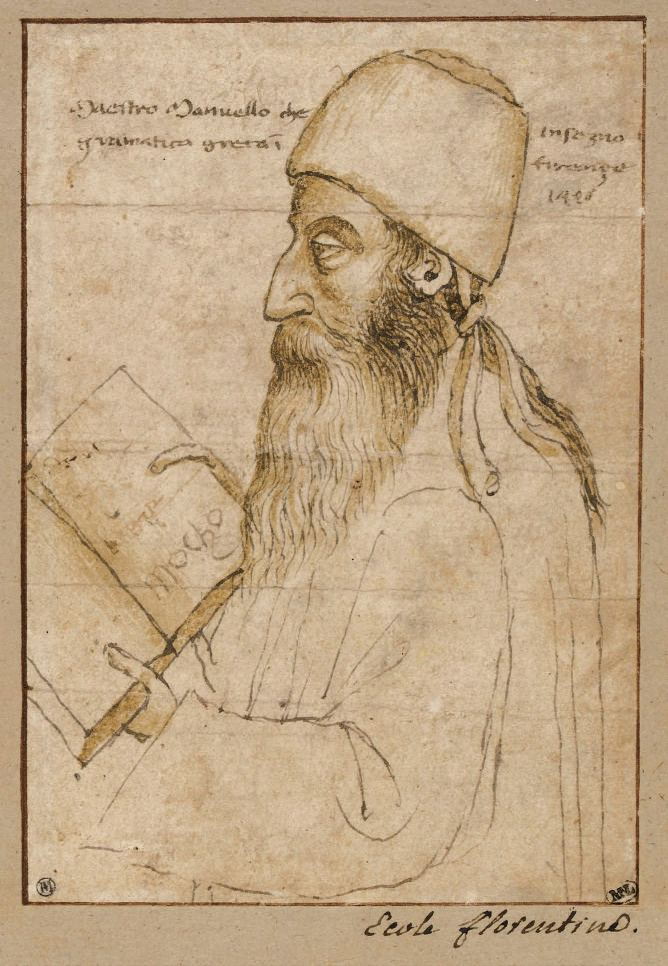 A portrait (Louvre Inv. 9849) of Manuel Chrysoloras (1355-1415) holding a book, drawn by Paolo Uccello. Chrysoloras was a professor of Greek studies in Italy, and the supposed founder of the Kappa Sigma secret society.